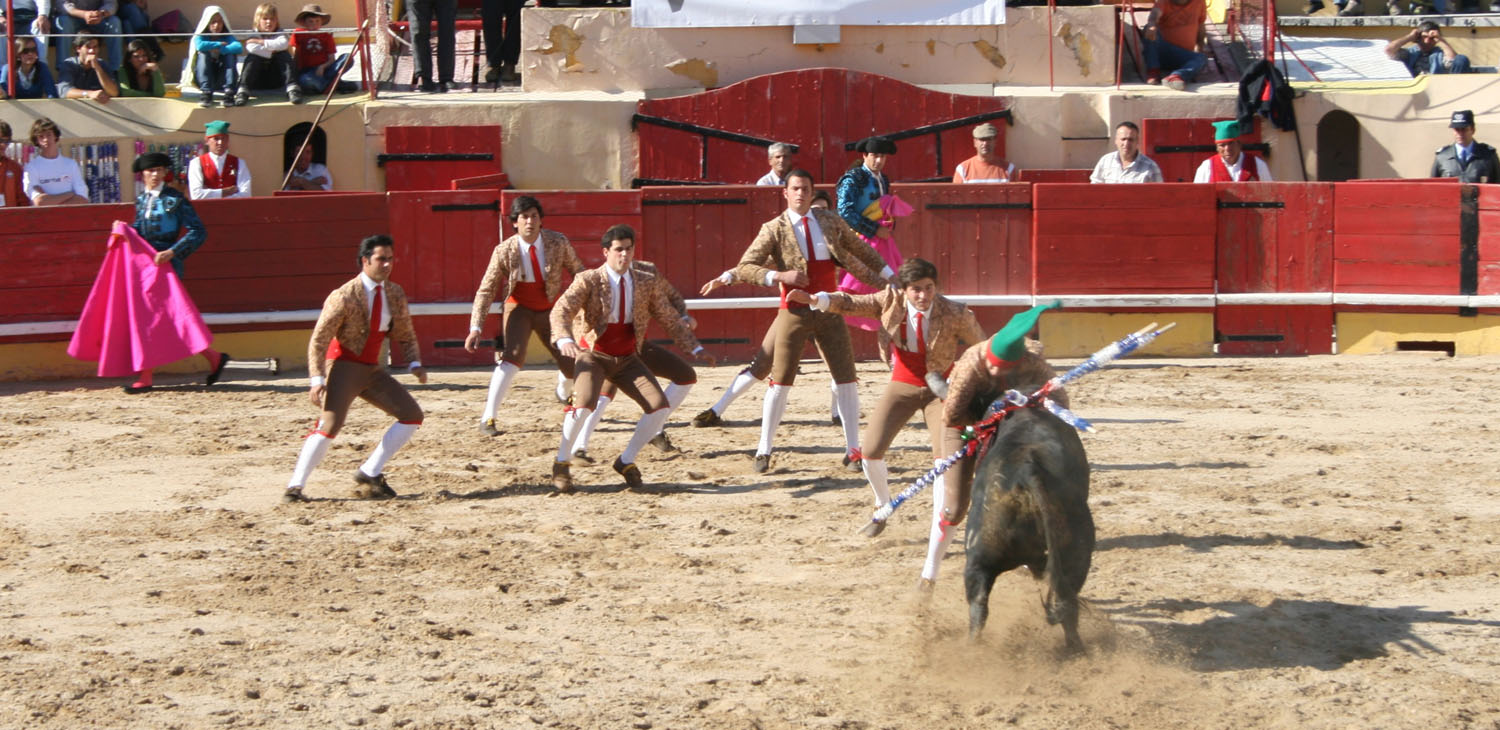 “Pega de caras” (face catch) by "forcados" in a Portuguese-style bullfigh, at Cartaxo.